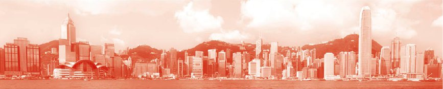 Skyline as seen in the Hong Kong Factsheet.